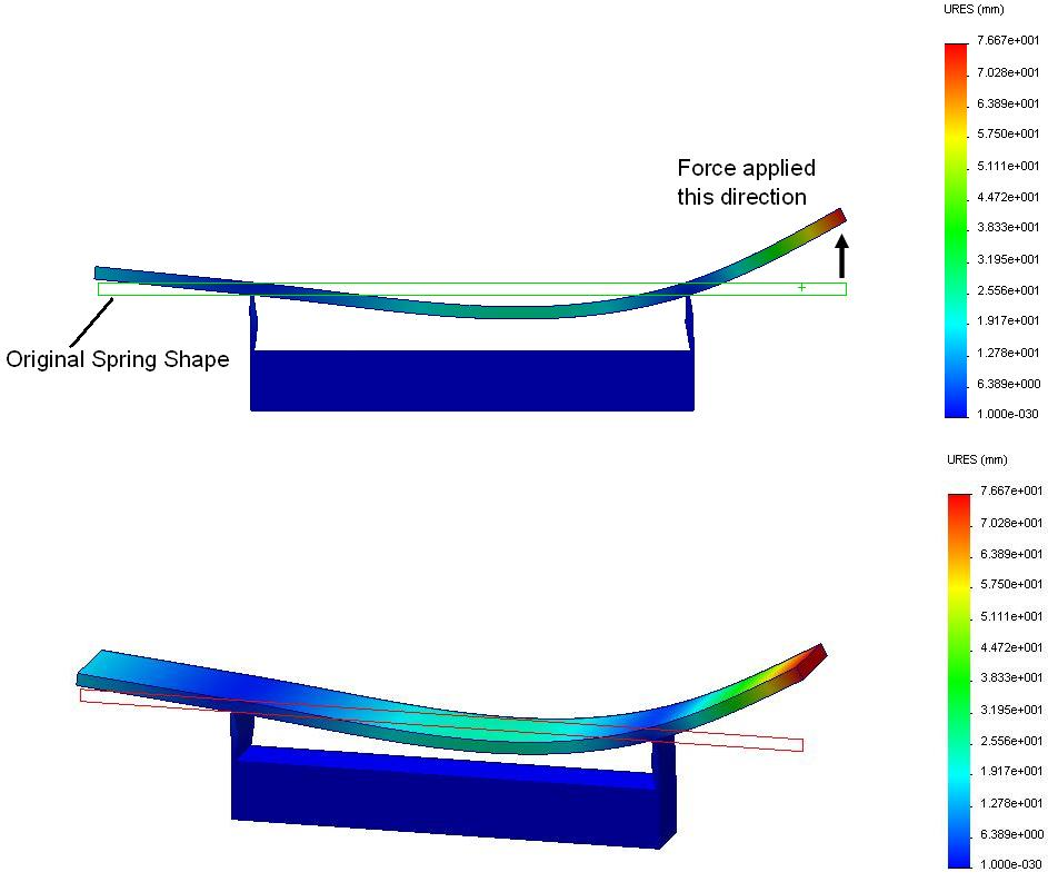 FEA quick model of a transverse leaf spring with two mounts under one sided load